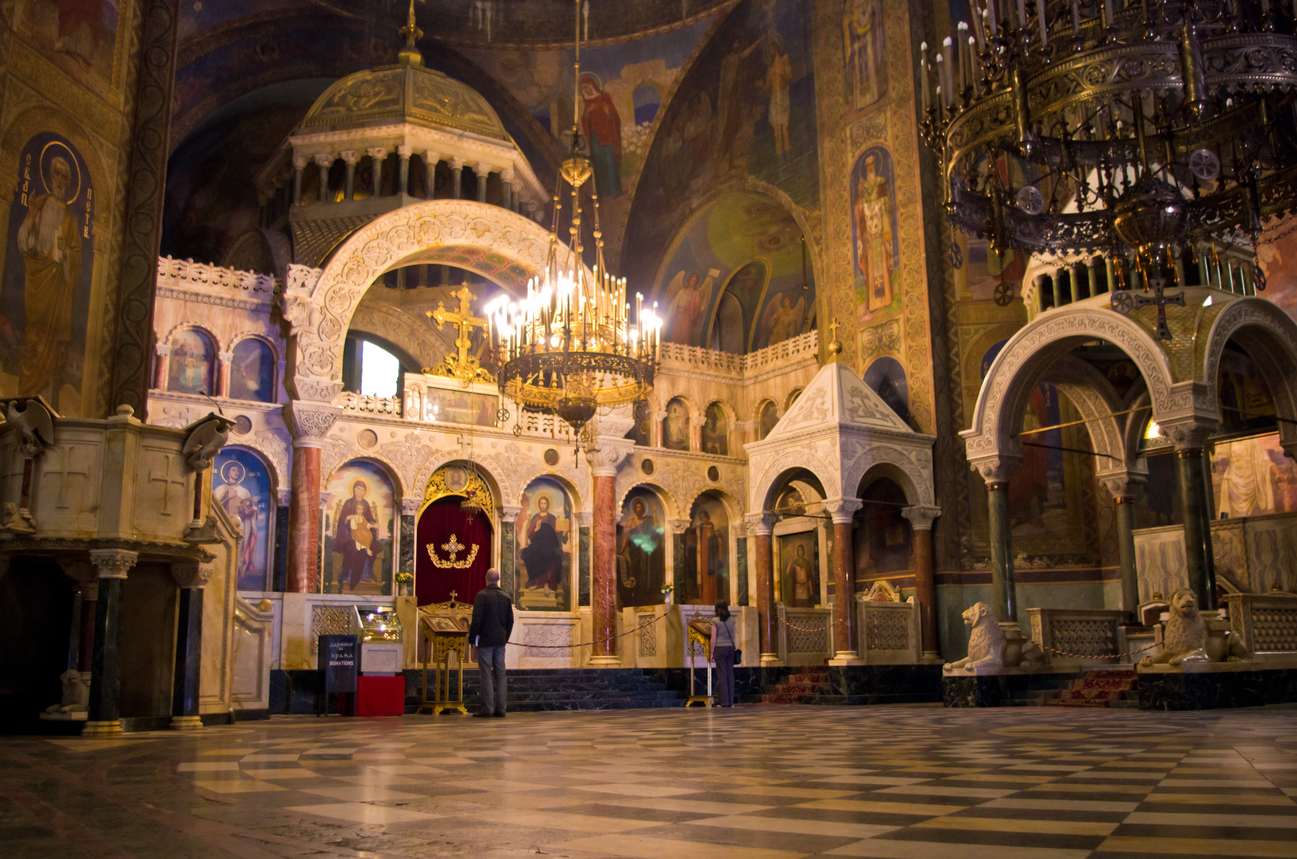 Inside the Alexander Nevsky Cathedral, Sofia